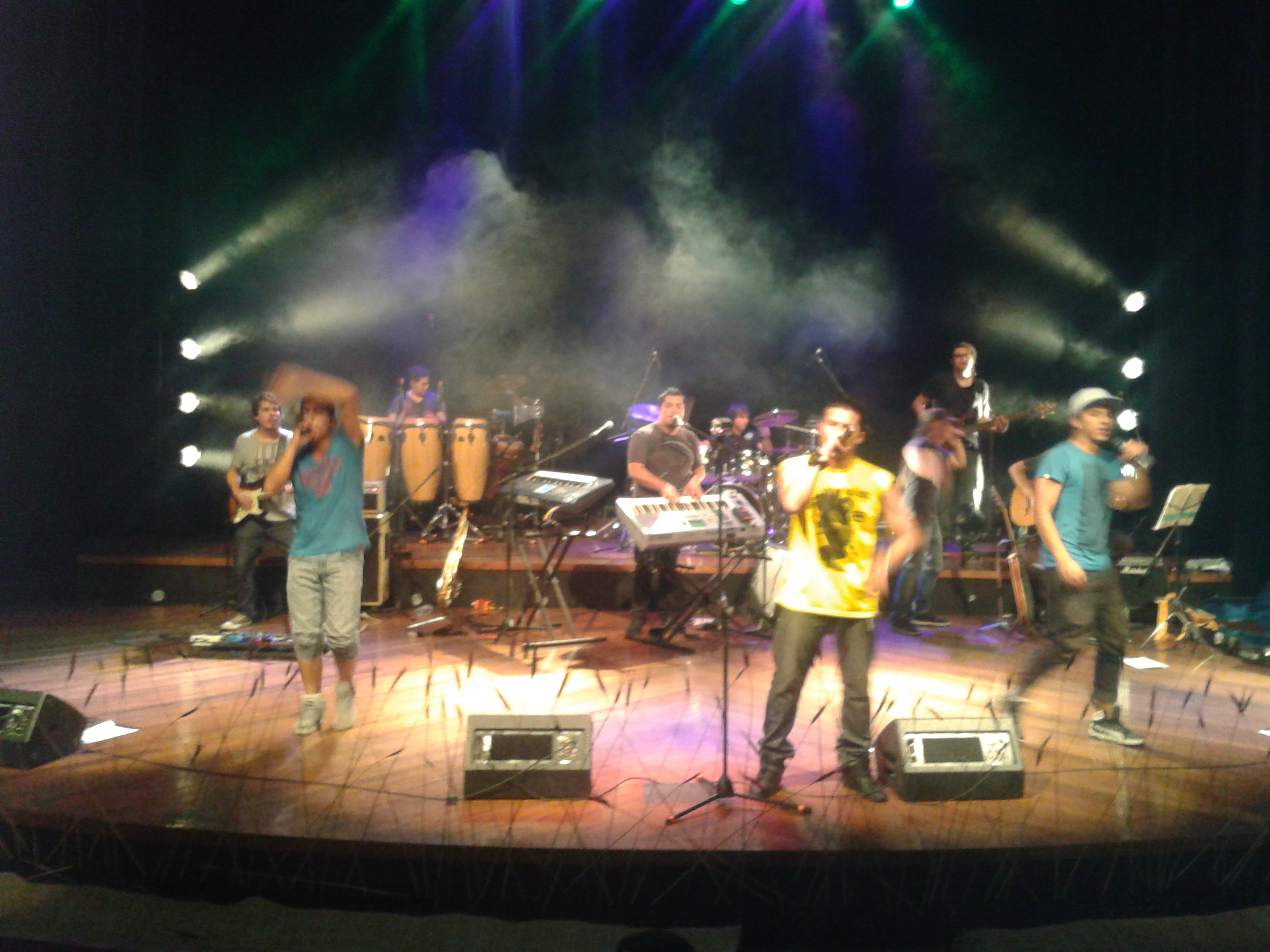 Cocoa Roots Teatro México